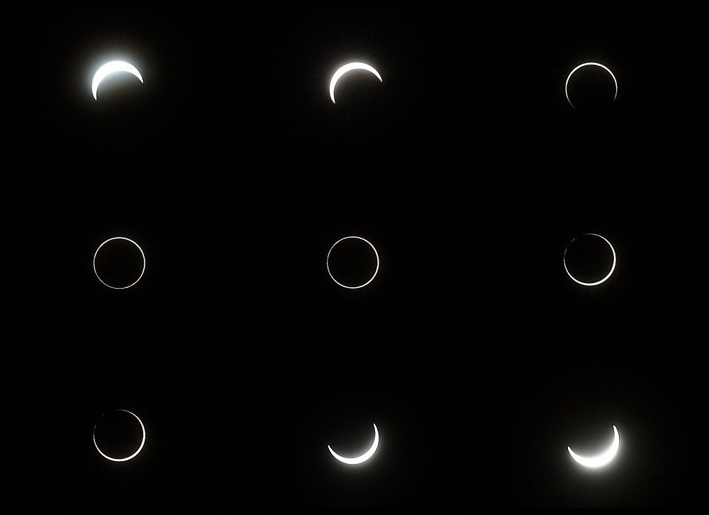 Annular eclipse, June 21, 2020. Photo taken by Canon EOS 5D, EF 24-105 f4 L, in Minxiong, Chiayi County, Taiwan (N 23.527591, E 120.467769).